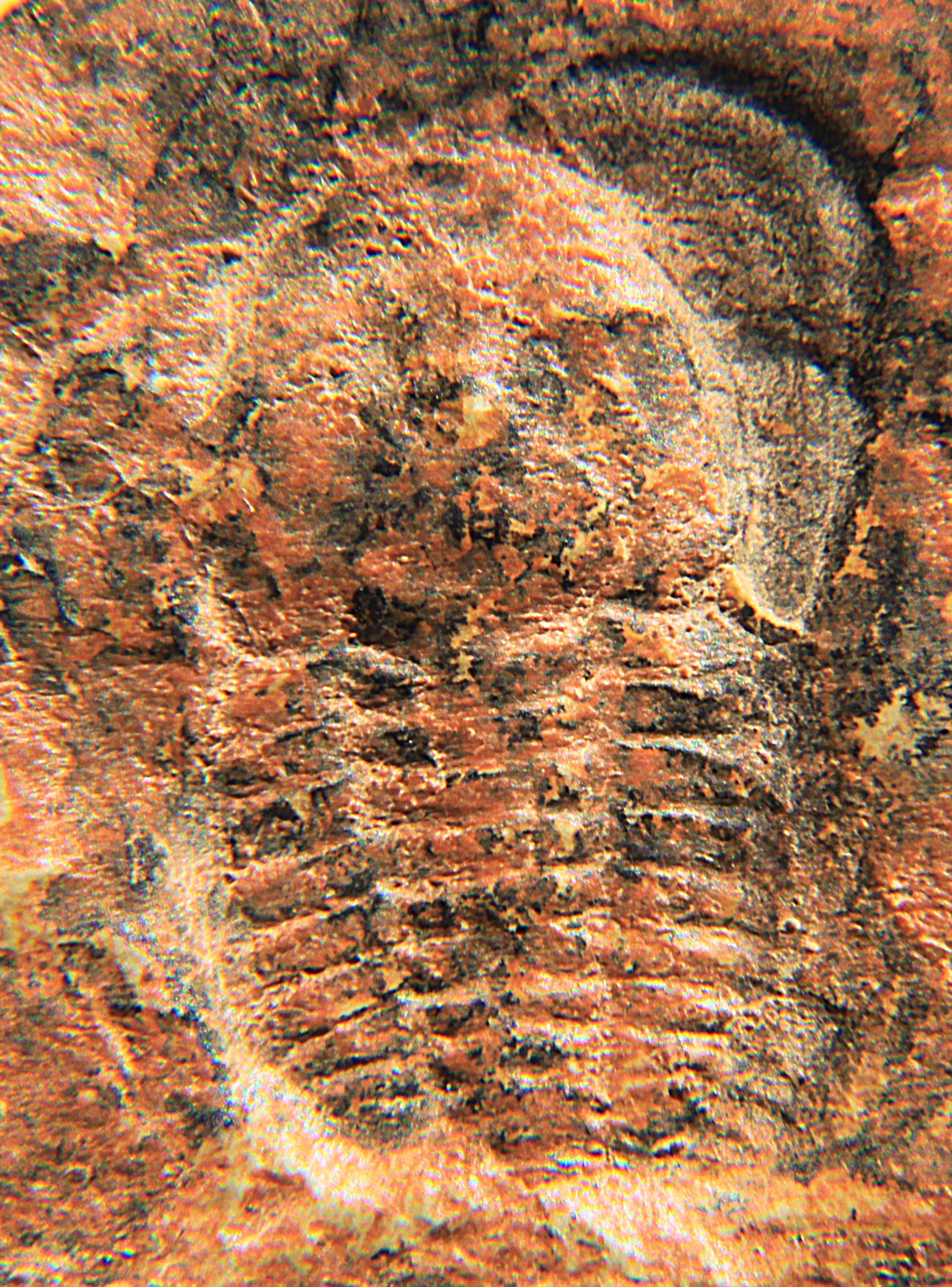 A trilobite of the genus Daguinaspis, Order Redlichiida, Family Daguinaspididae, 21mm measured along the axis, collected in Morocco, from the Lower Cambrian (Atdabanian)